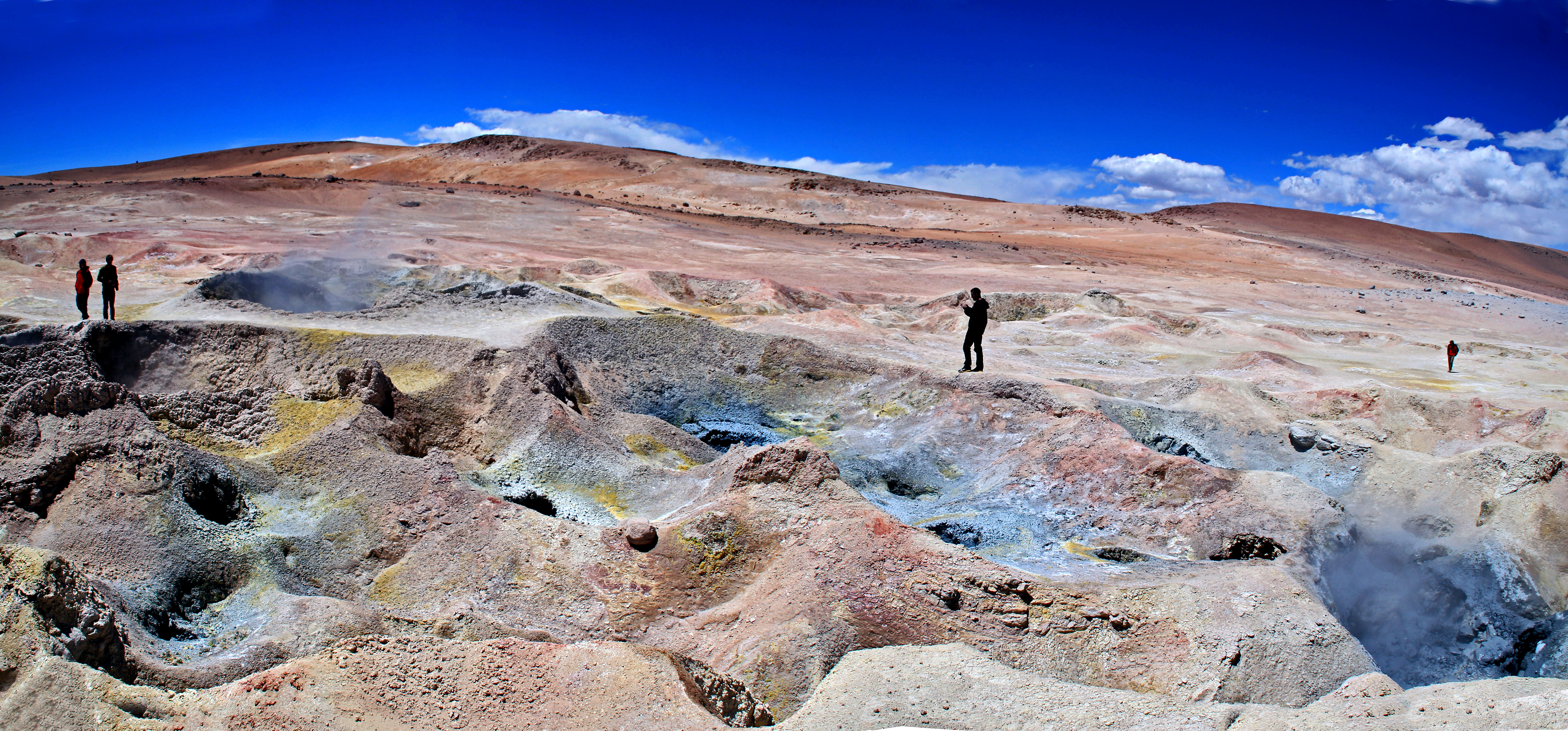 Sol de Manana, geothermal field, south-western Bolivia